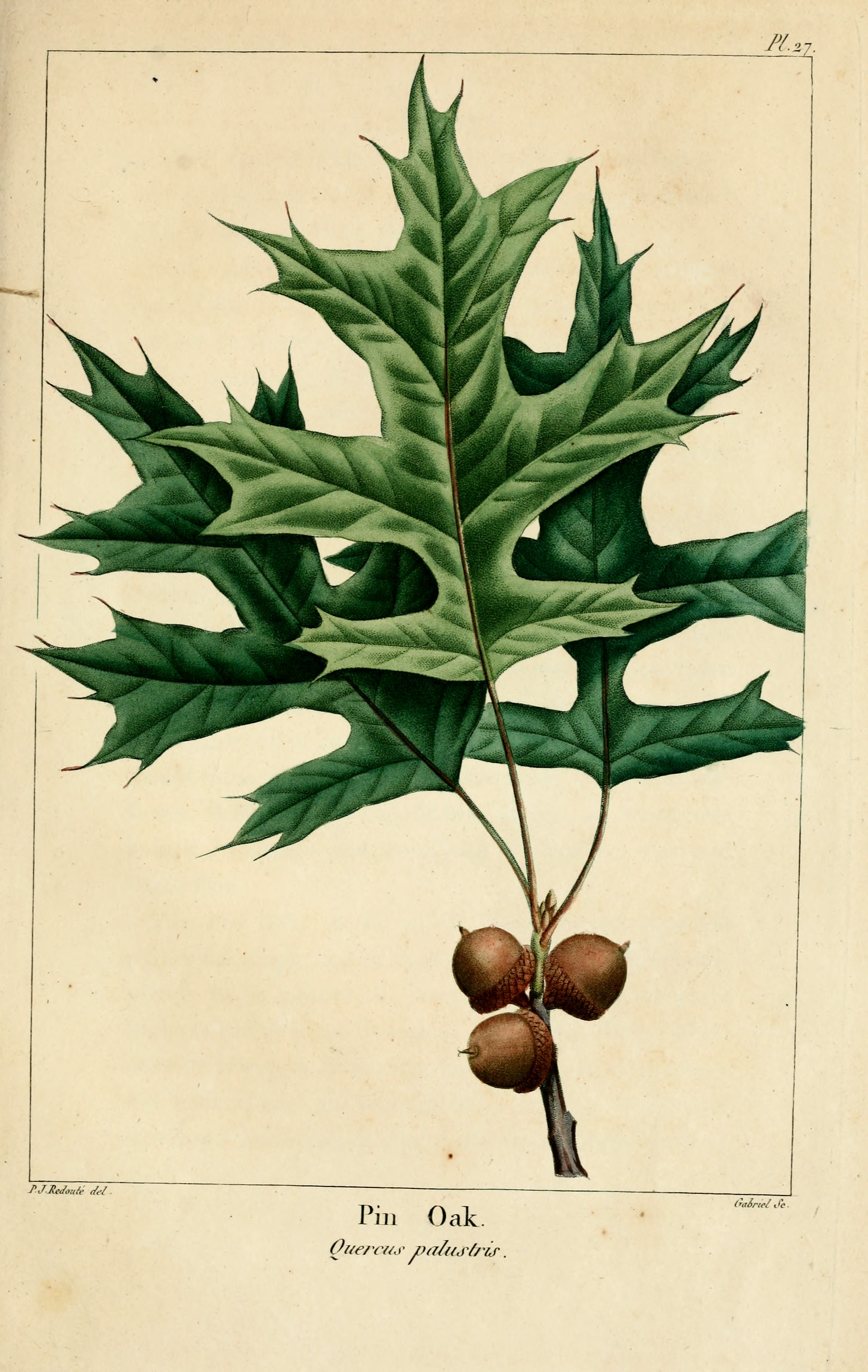 Quercus palustris - Pin Oak